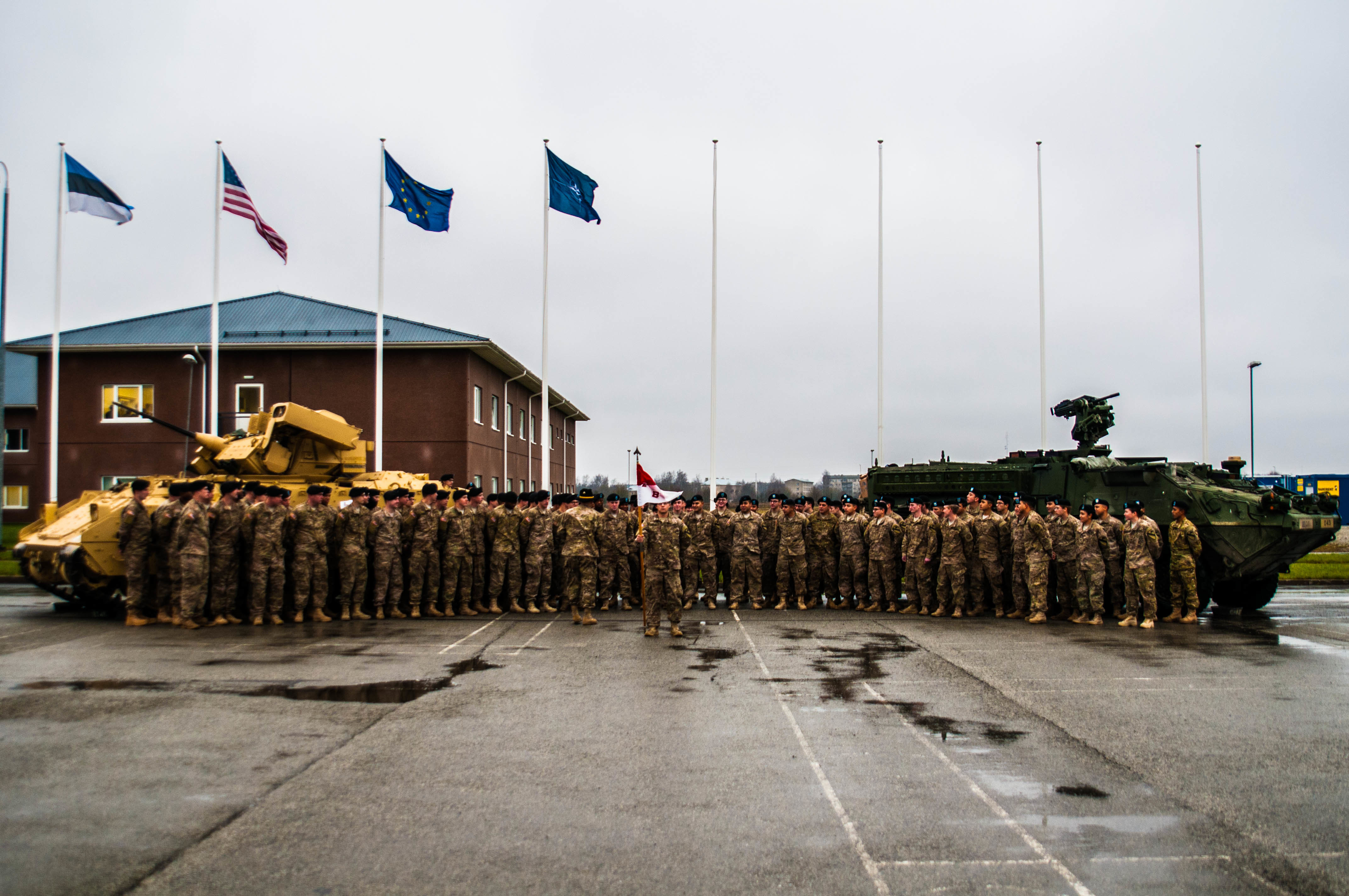 Soldiers from B Co., 2nd Btn., 8th Reg. Cavalry, 1st Bde., 1st Cavalry Div. from Fort Hood, Texas, stand in formation ready to receive the Prime Minister of Estonia on Tuesday, Nov. 11, 2014. The Prime Minister's visit continues a tradition of partnership as a part of Operation Atlantic Resolve, a multinational combined arms exercise to enhance multinational interoperability, strengthen relationships among allied militaries, contribute to regional stability, and demonstrate the U.S. commitment to NATO. (U.S. Army Photo by Staff Sgt. Ray Boyington)